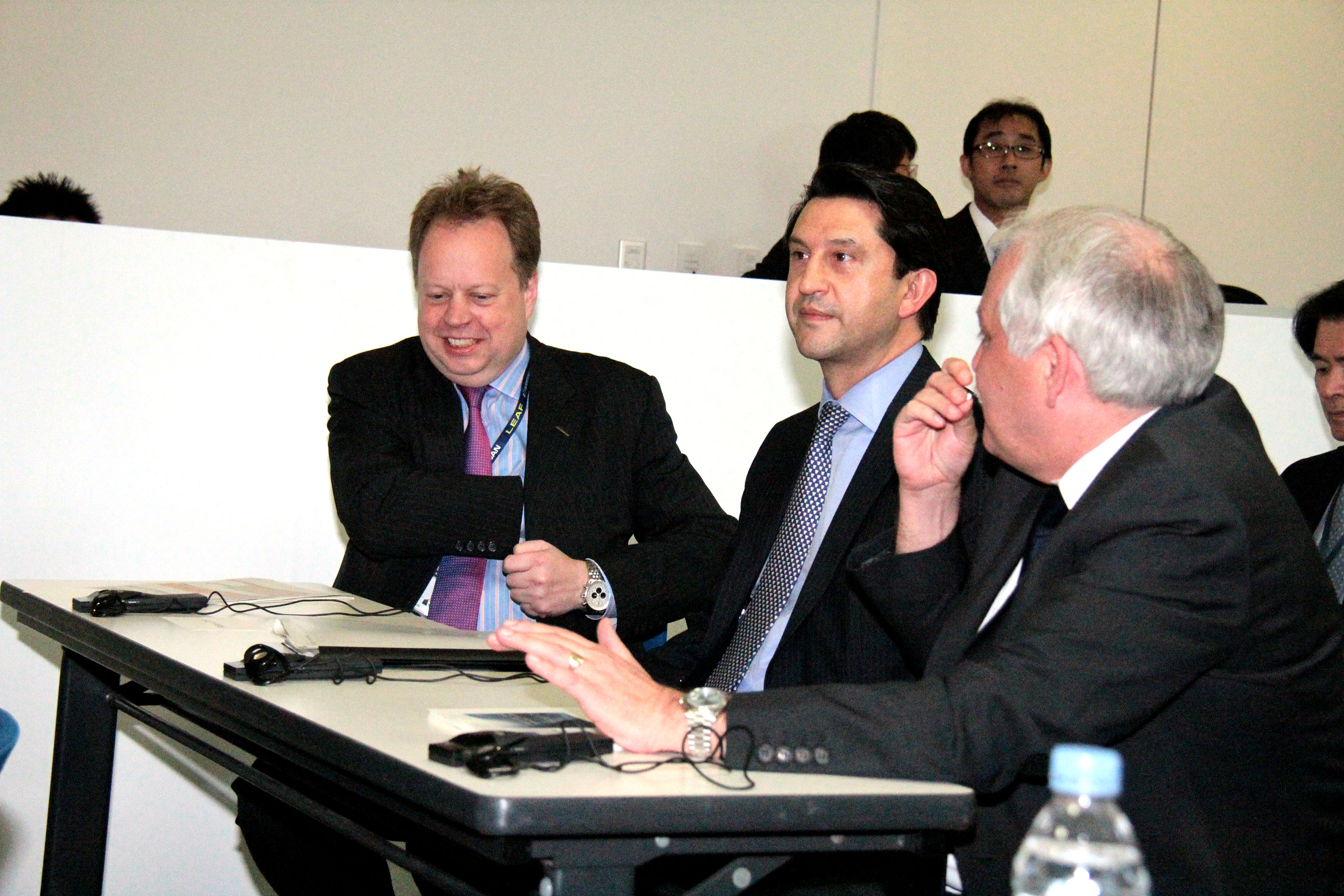 Andy Palmer (left) at the 2013 Nissan earnings press conference inYokohama. Picture by Bertel Schmitt